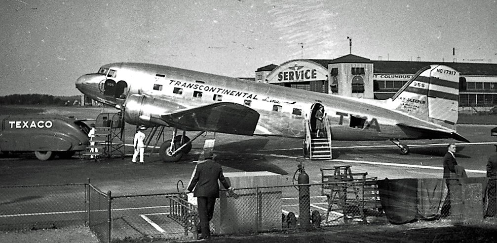 1941 at Columbus, Ohio Airport-CMH "Physics class trip to airport, October 1941. Argus C2, Panatomic X, developed D-76" I wrote on a negative envelope that I just found. I was a senior at Worthington High chool at the time. Frank Pyle, our Physics teacher, later became a vice president of Gulf. I think the plane is a DC-3. The Columbus airport was in a small. building on Fifth Avenue. Looking at this photo reminds me of how simple it was to board a plane in those days. You just walked a few feet and climbed aboard. But it took lots more money to buy a ticket.